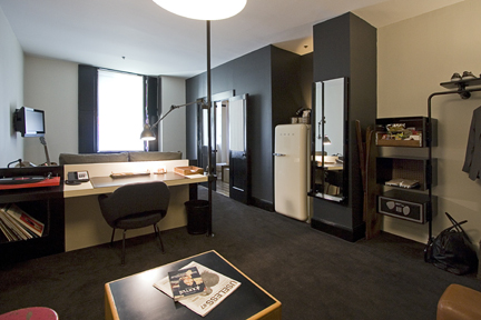 interior of Ace Hotel New York guest room. Ace Hotel New York worked with Roman and Williams [7] to redesign the former Hotel Breslin, a 1904 building in Midtown Manhattan.